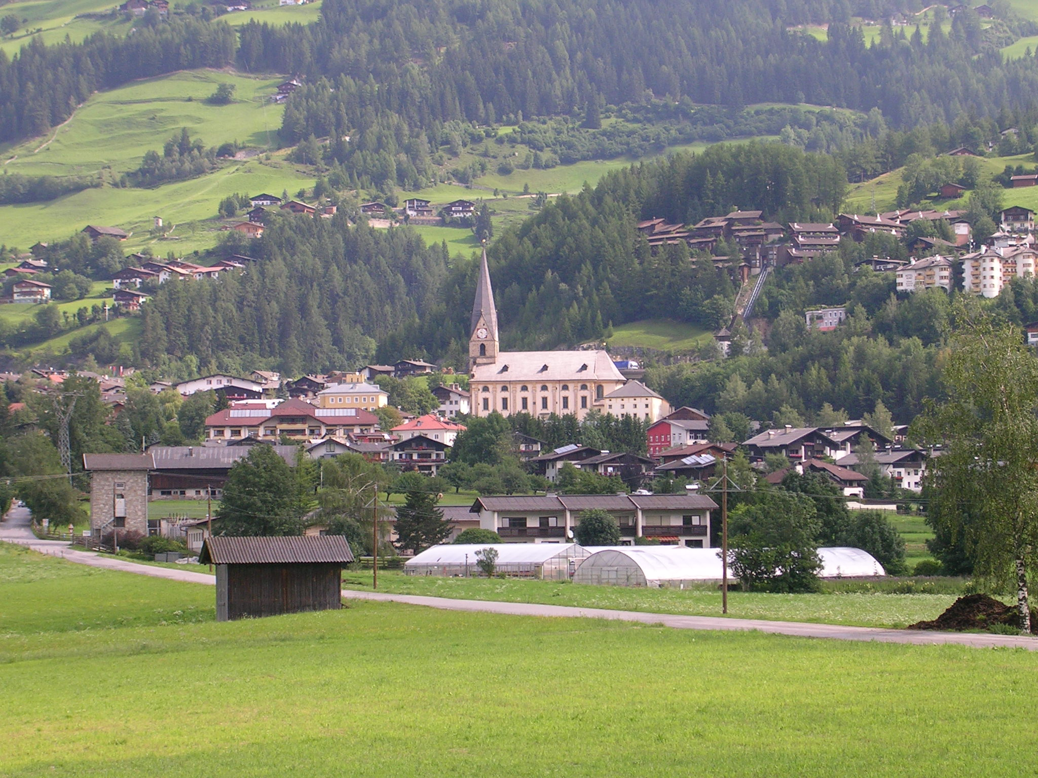 Matrei with parish church St. Alban seen from south